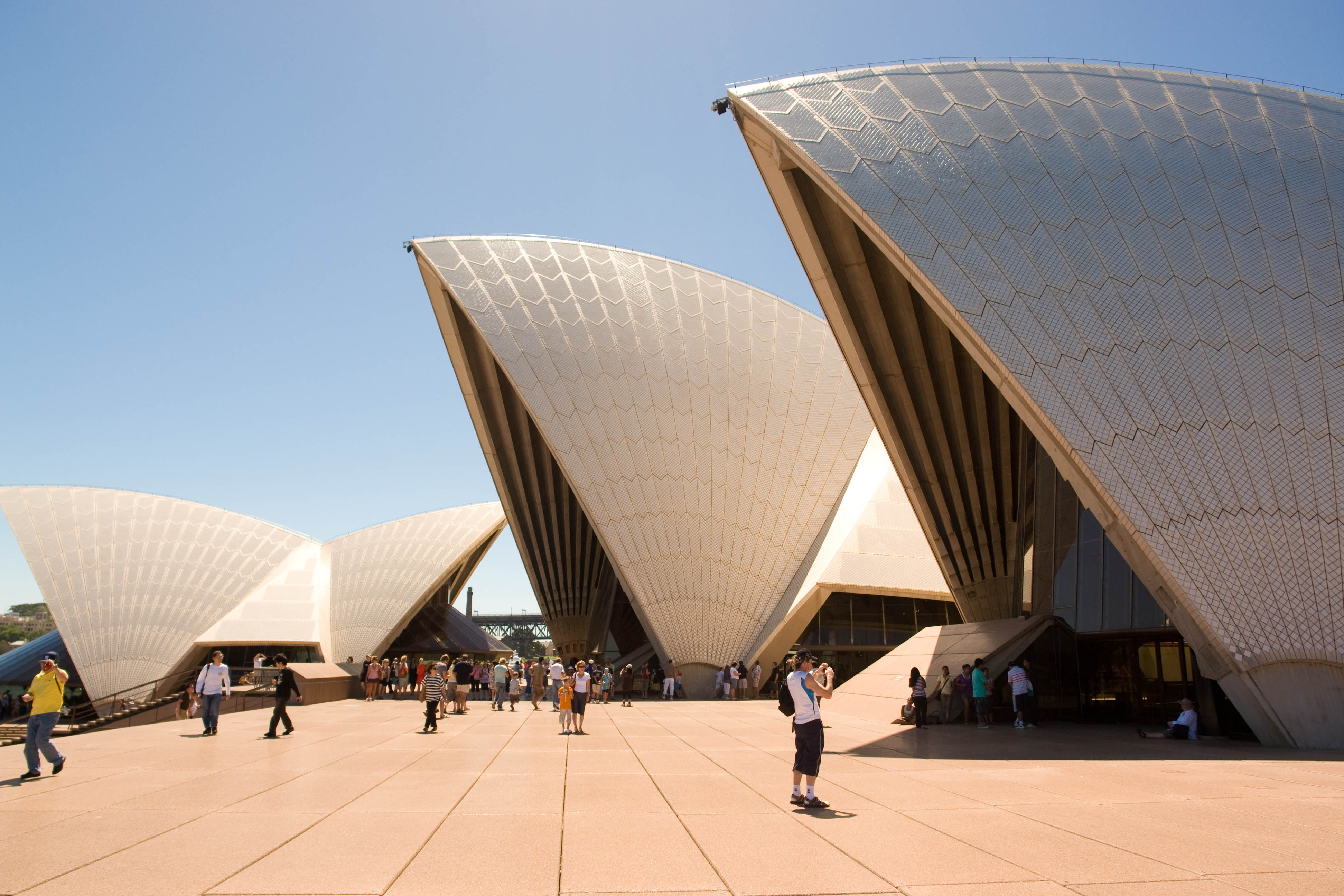 The actual overall structure is made up, from smaller buildings